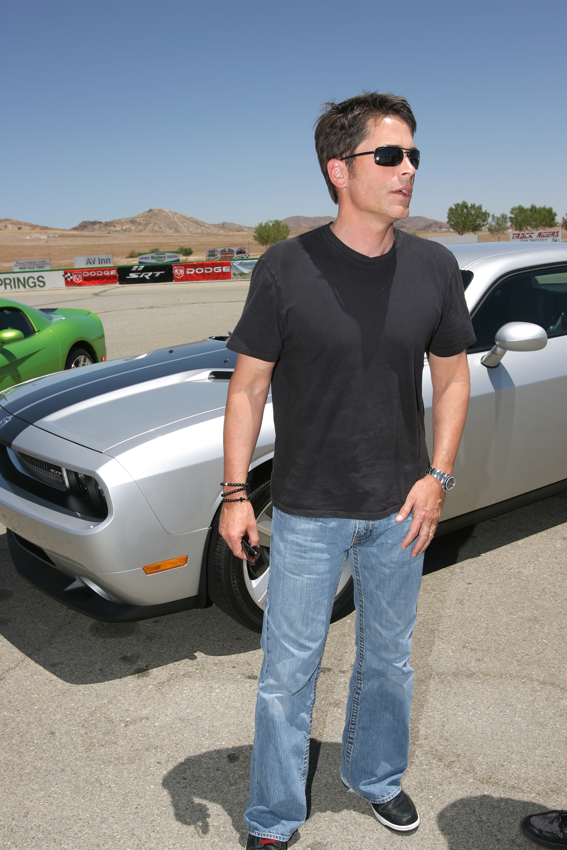 Rob Lowe with Challenger